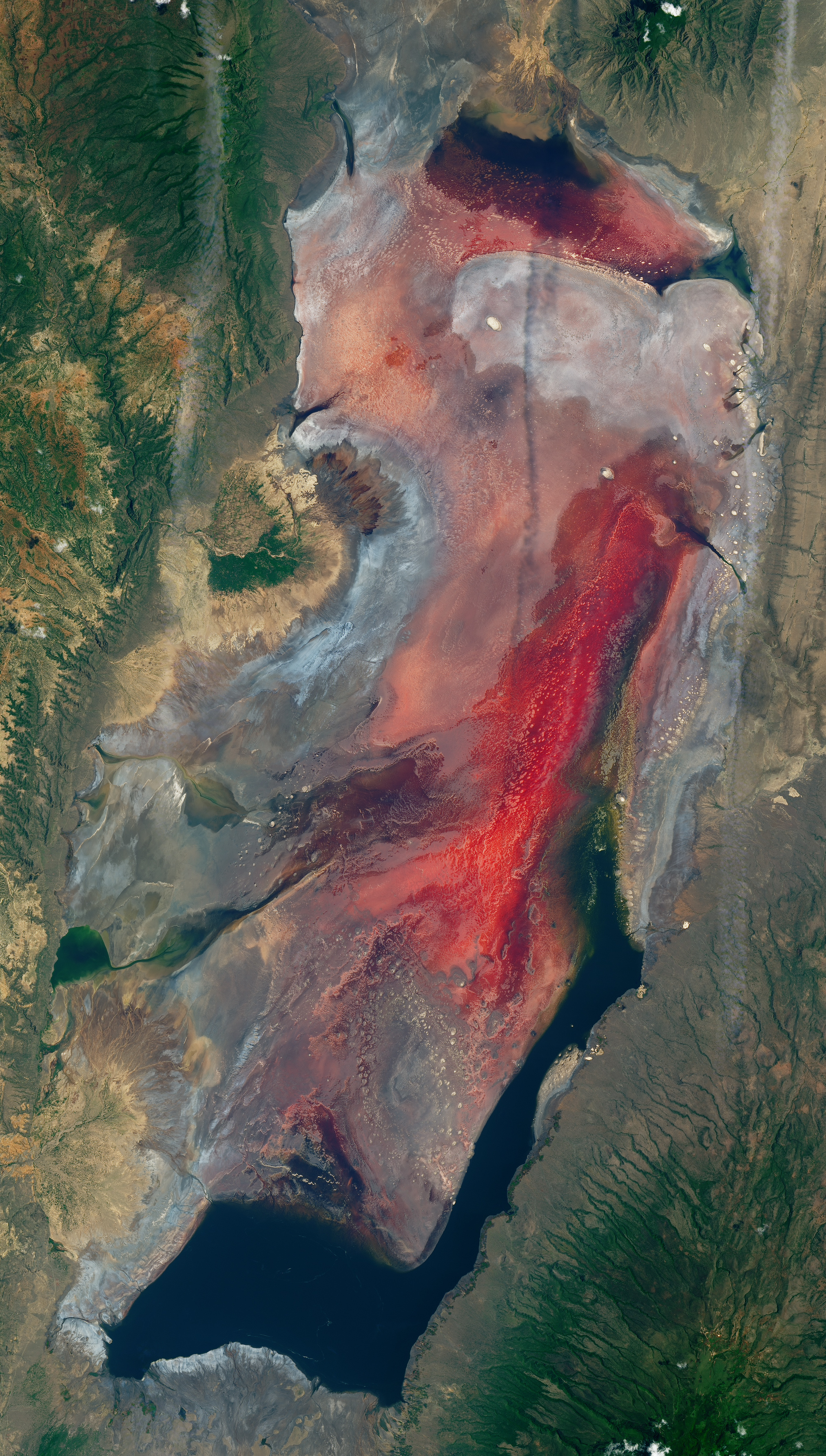 Lake Natron and surroundings in northern Arusha Region, Tanzania. It is located in the East African Rift. The lake is mostly inhospitable to life, except for a few species adapted to its warm, salty, and alkaline water. You can see the deepest water along the perimeter of the lake bed, the location of lower-elevation lagoons. The extinct Gelai Volcano, standing at 2942 m tall, is partly visible southeast of the lake. Natural-colors mages was captured on 3 March 2017, very early in the rainy season, by the Operational Land Imager (OLI) on NASA's Landsat 8 satellite.